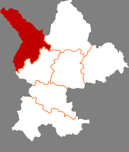 Location of Lintao county in Dingxi city, China